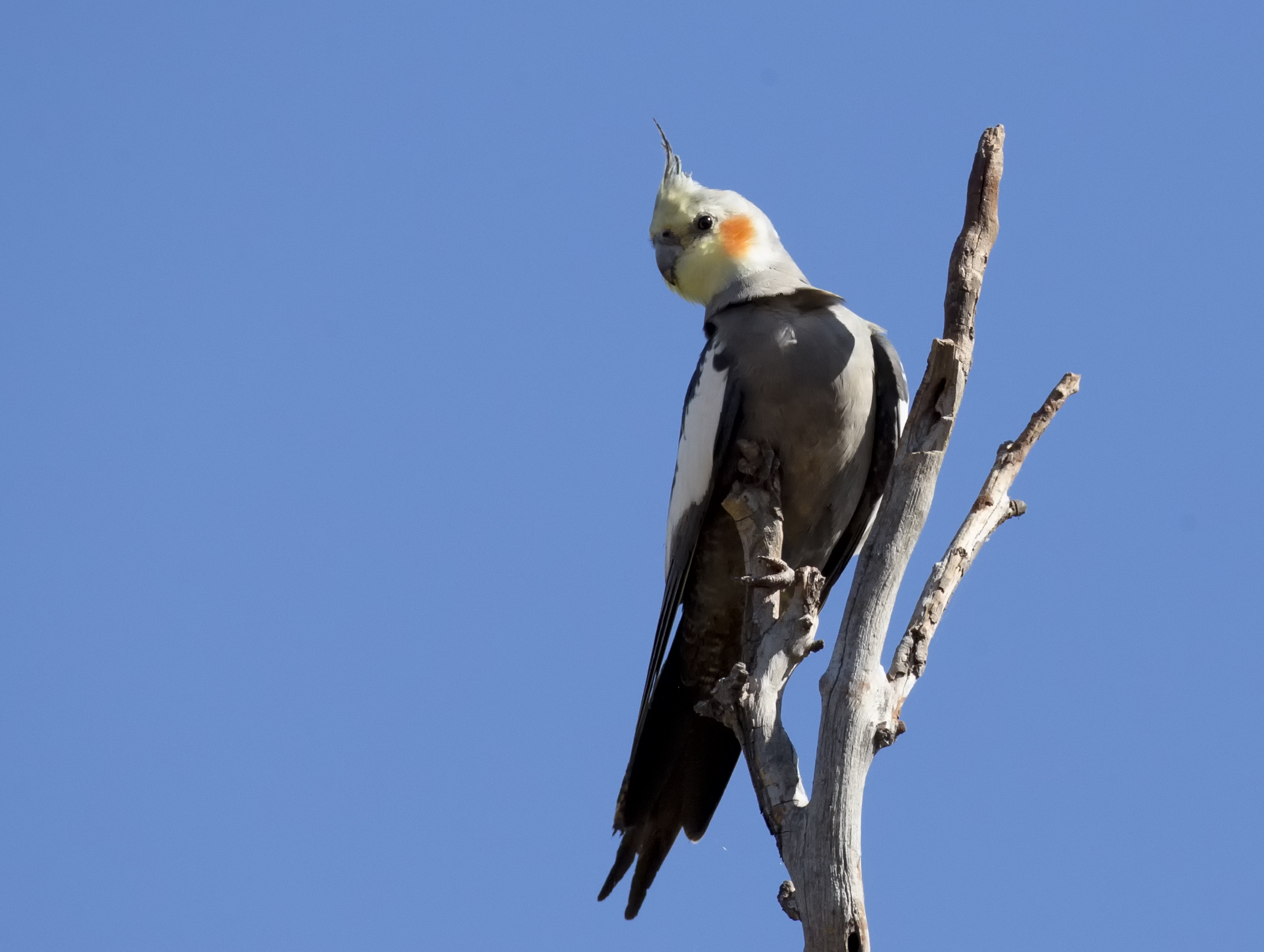 A quick check before a drink